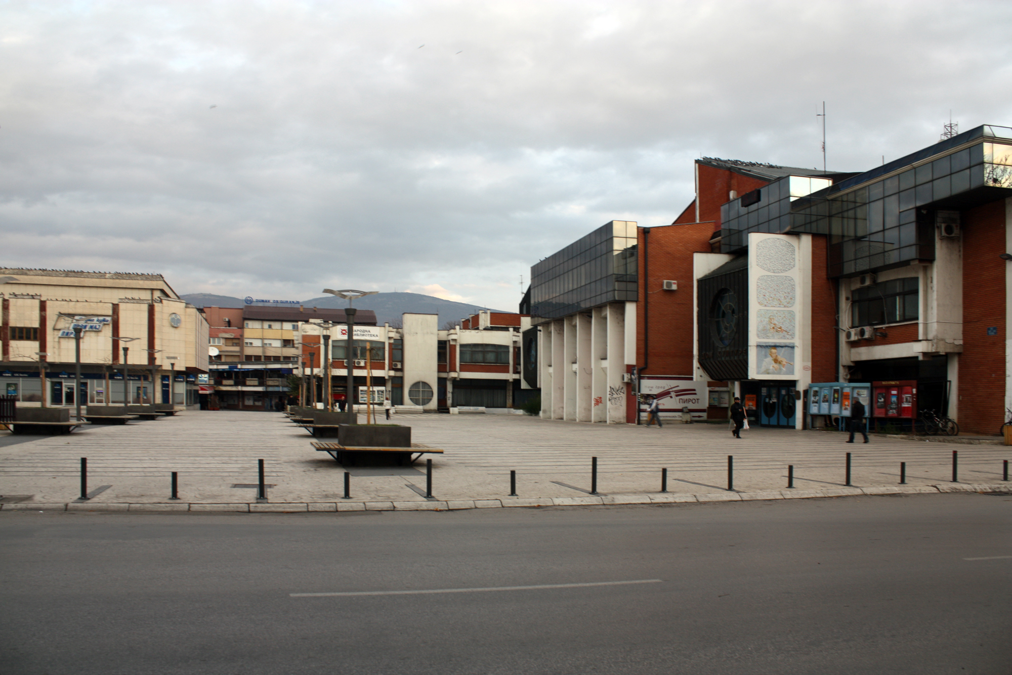 Pirot central square with the Art Gallery and Public Library